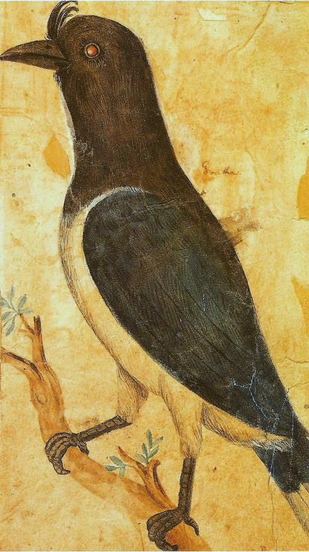 Jay